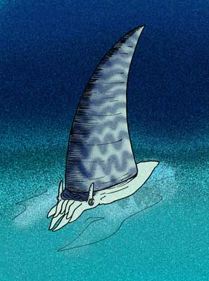 Reconstruction of the primitive cephalopod, Plectronoceras cambria, from the Late Cambrian